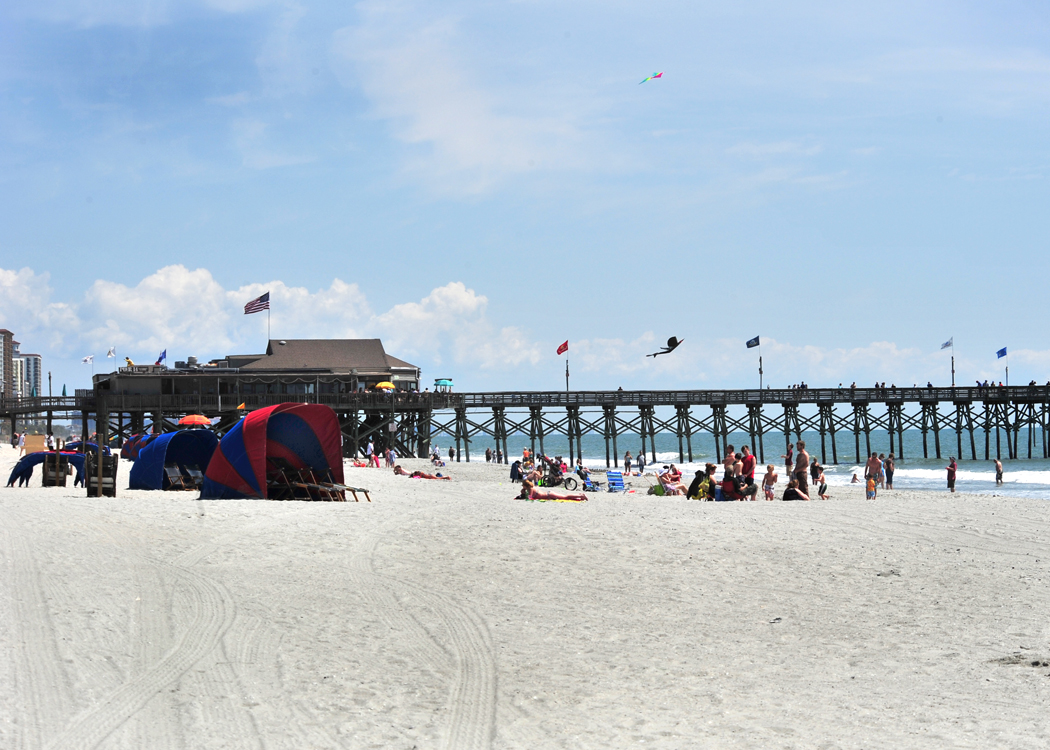 Myrtle Beach is Sixty miles of soft sandy beach, entertainment and attractions for everyone, endless shopping, exquisite dining, thrilling water sports and so much more.